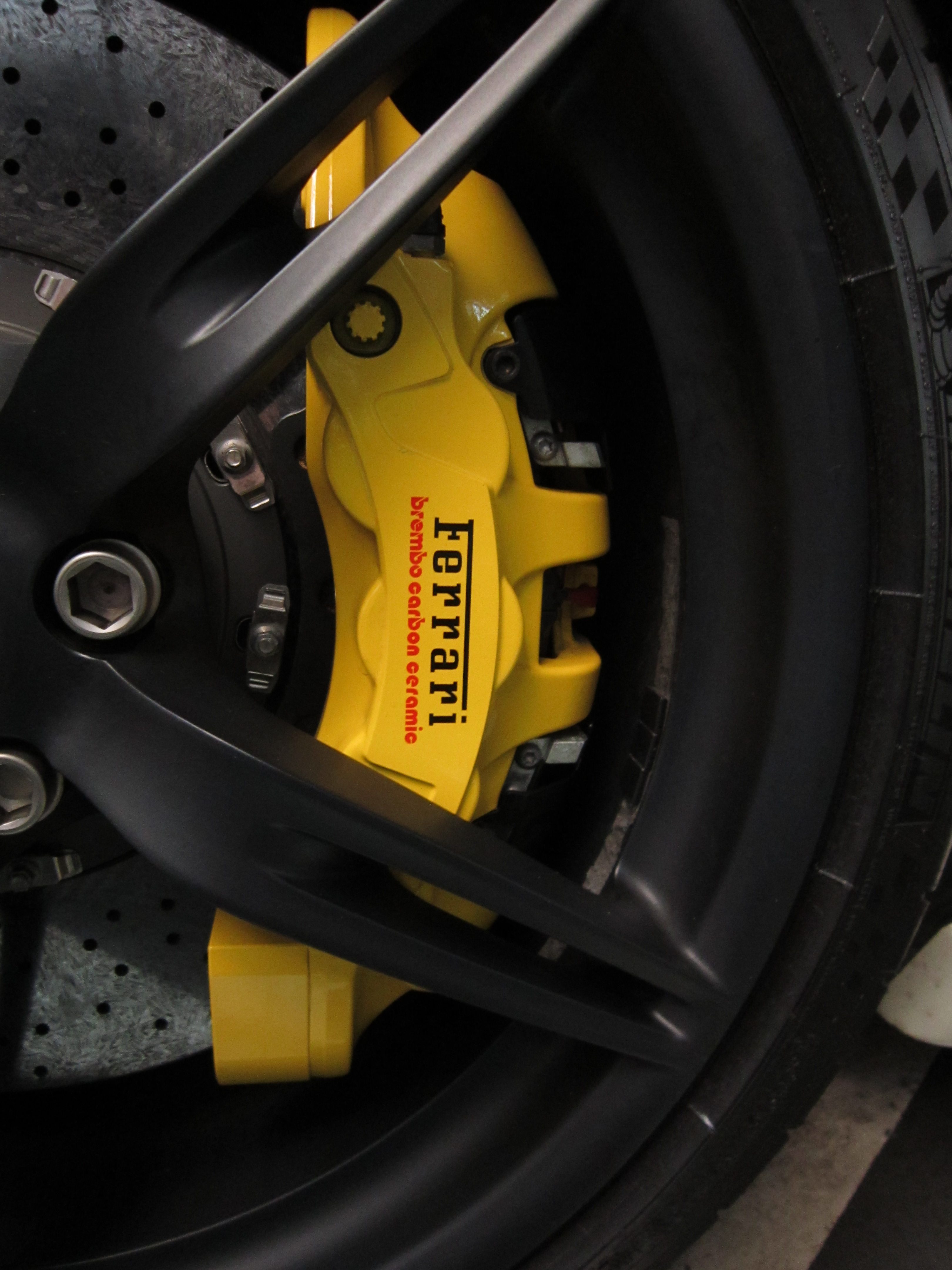 brake caliper